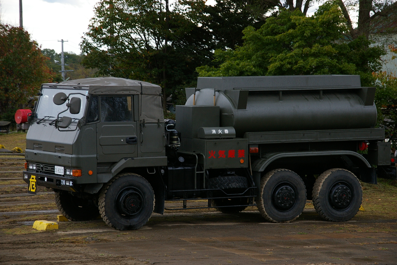 JGSDF 3 1/2 Fuel tank track, Type73 large track base.